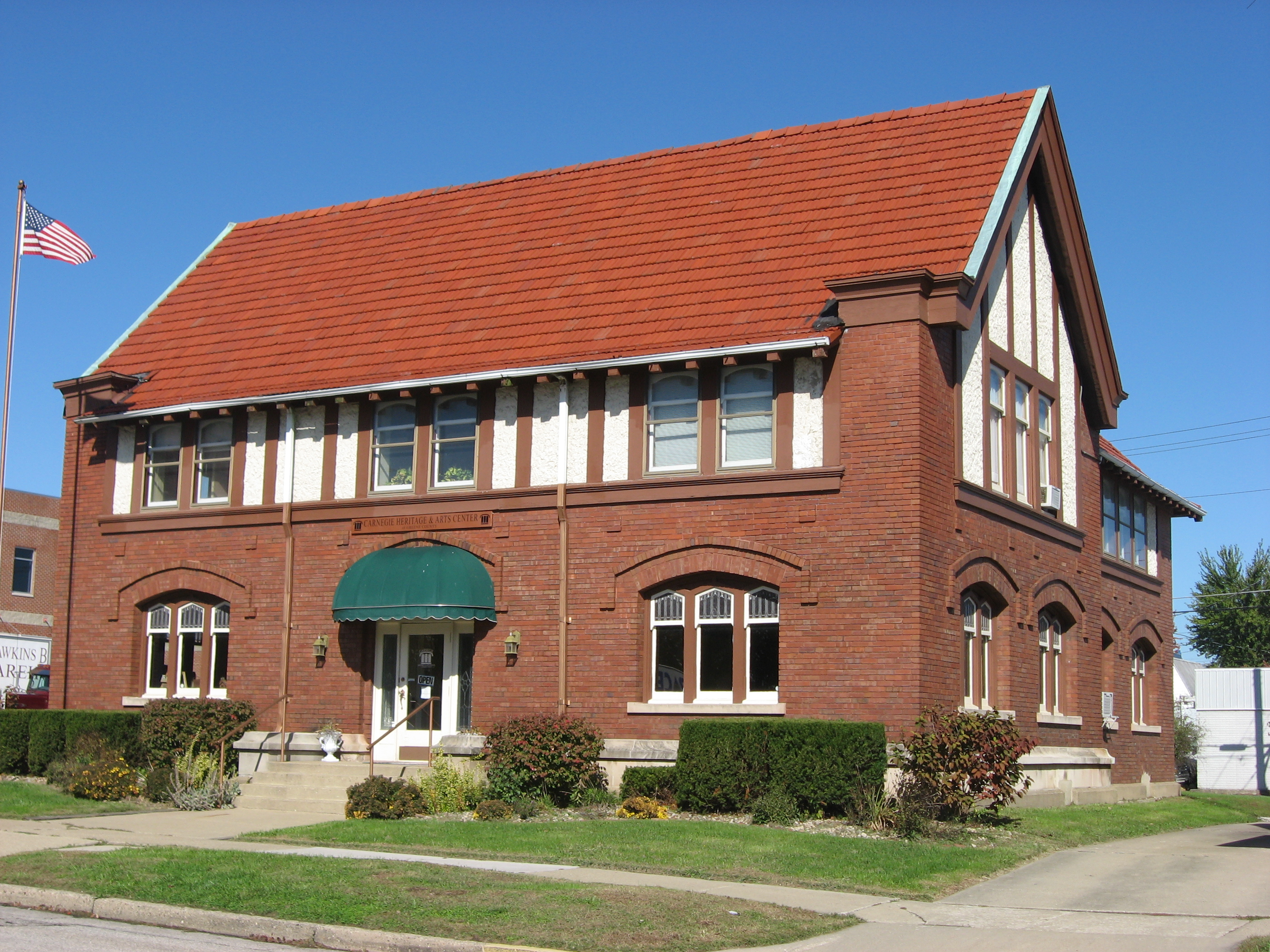 Front and eastern side of the Linton Public Library, located at 110 E. Vincennes Street in Linton, Indiana, United States. Built in 1908, it is listed on the National Register of Historic Places.